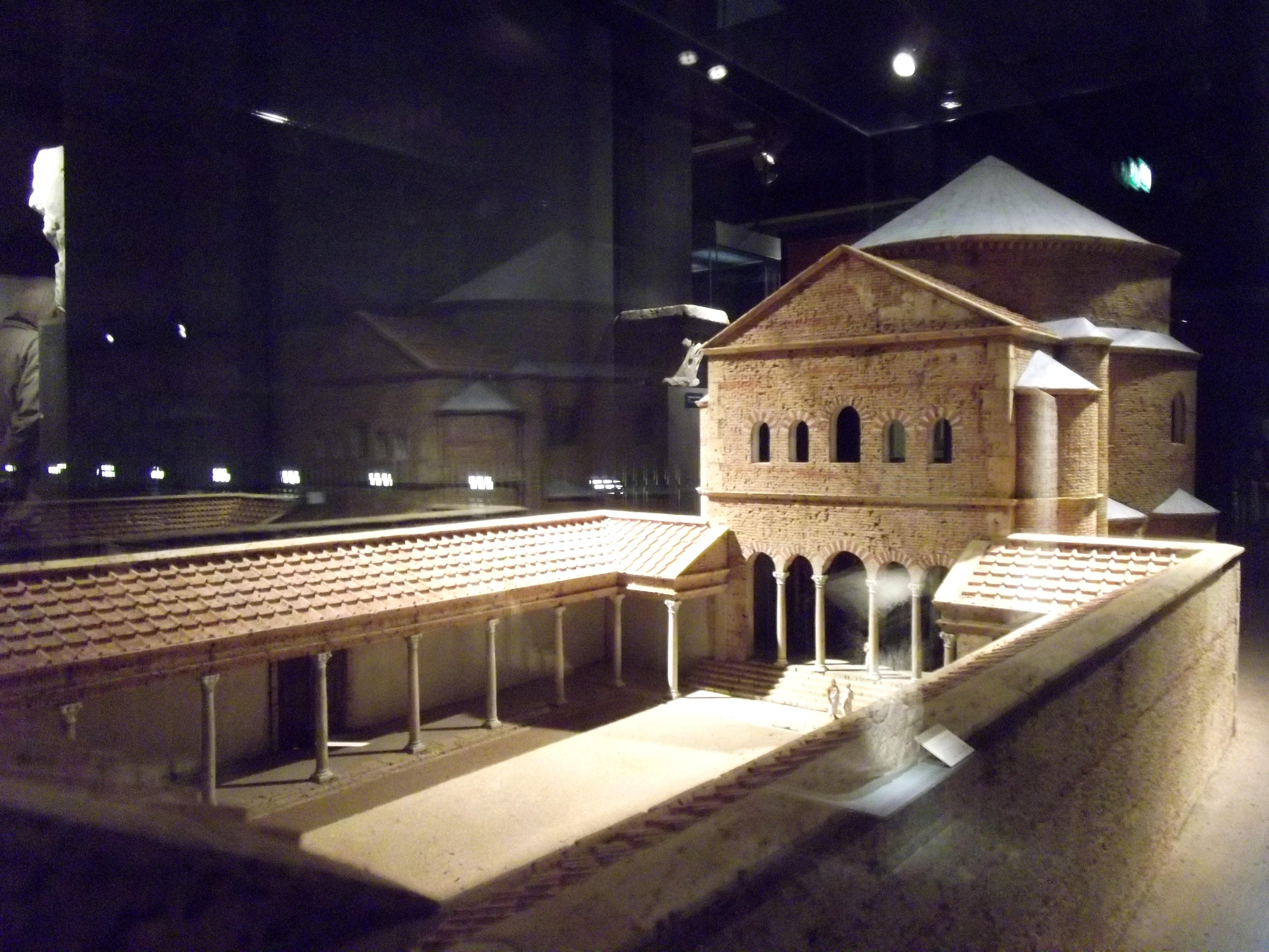 Front-side view of a model of St. Gereon at Cologne Archaeological Zone. The model represents the church's condition of the 5th century. Model built by Atelier Dieter Cöllen GmbH (2008)